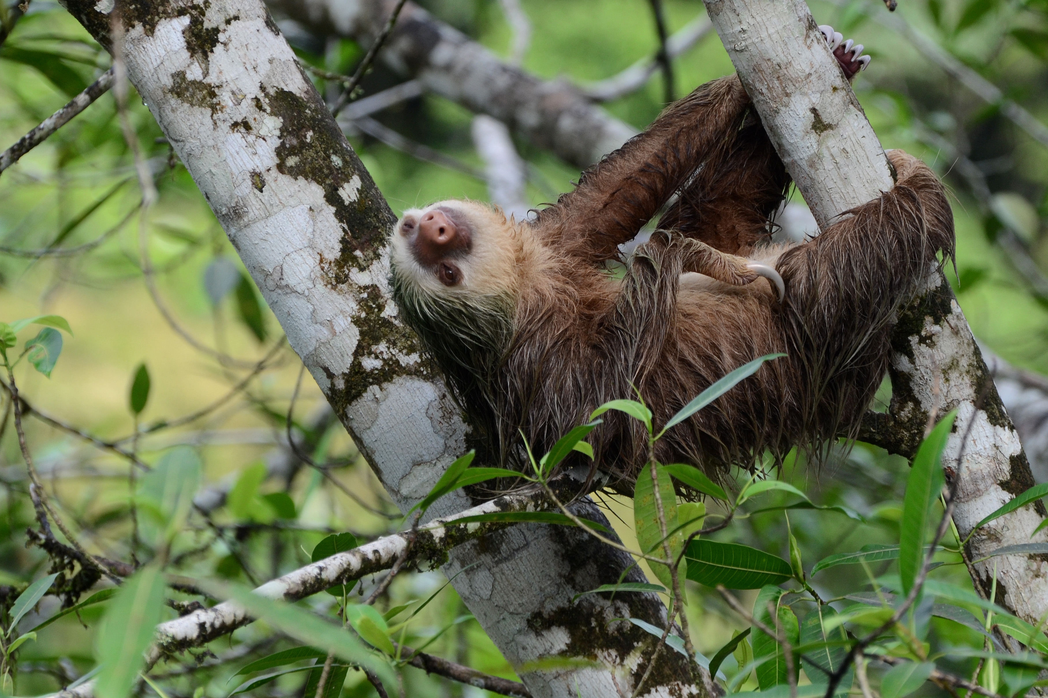 A two-toed sloth (Choloepus hoffmanni) at La Selva Biological Station, Sarapiqui, Costa Rica.